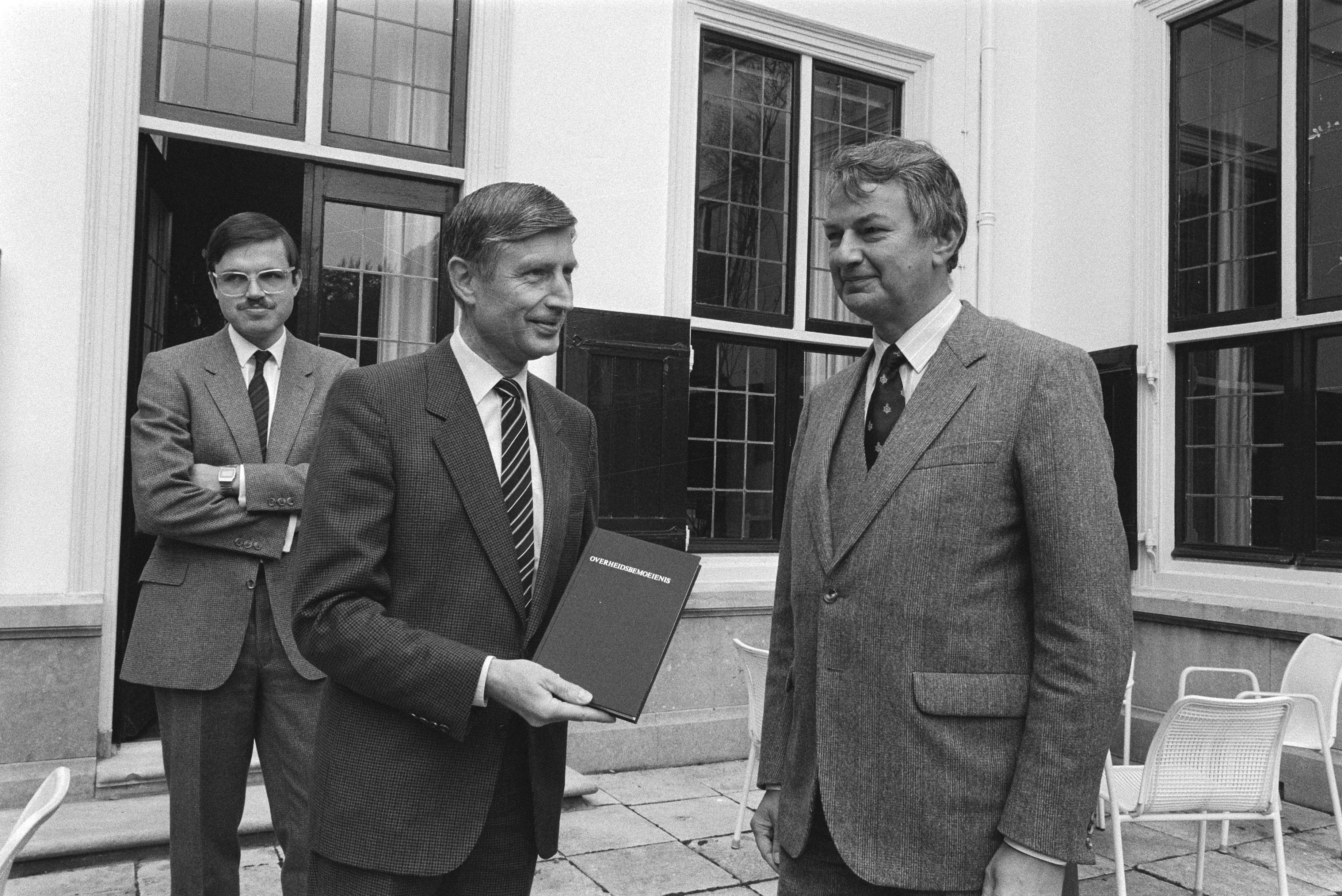 Van Agt ontvangt een lustrumboek van de Tilburgse Hogeschool, getiteld "Overheidsbemoeienis", van rector magnificus prof. dr. G. M. van Veldhoven (r) op het Catshuis. Links E. Hirsch Ballin. 20 oktober 1982